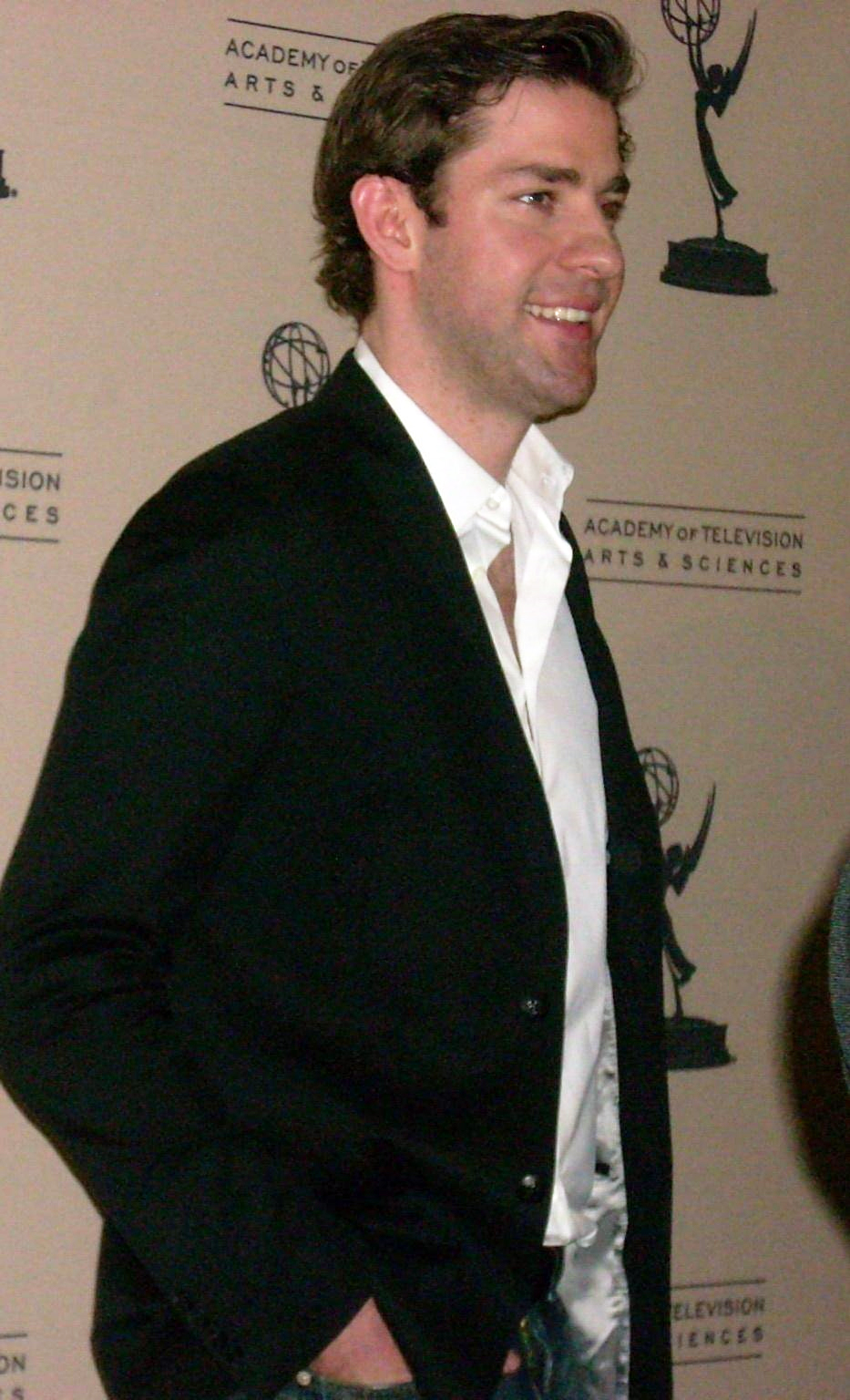 John Krasinski - Inside "The Office" at the Academy of Television Arts & Sciences, North Hollywood, California.